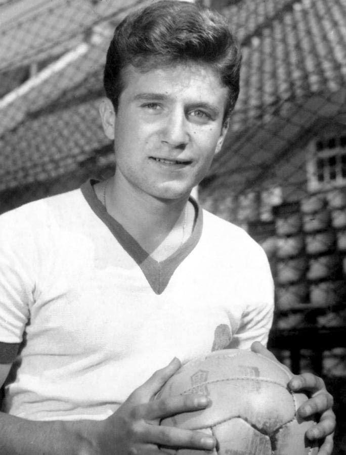 Argentine footballer Alberto Rendo during his first years in Huracán.